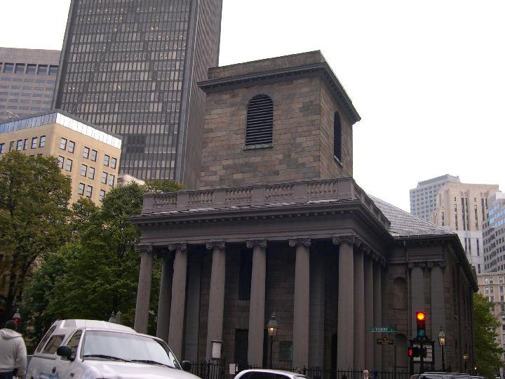 King's Chapel, Boston, with One Boston Place in the background.